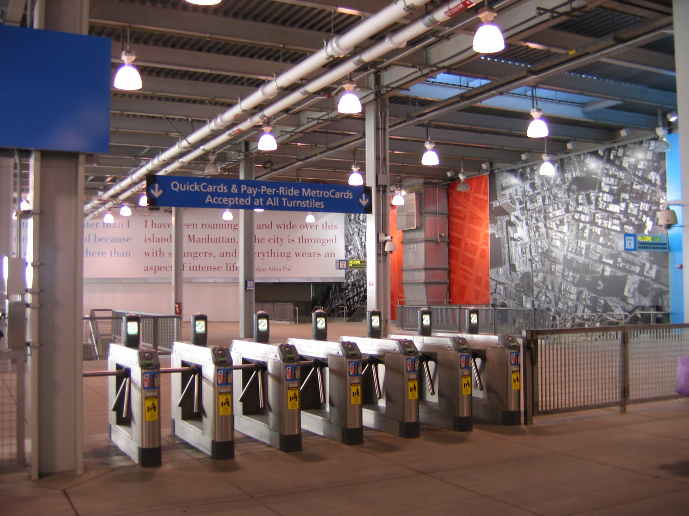 Temporary World Trade Center PATH station.